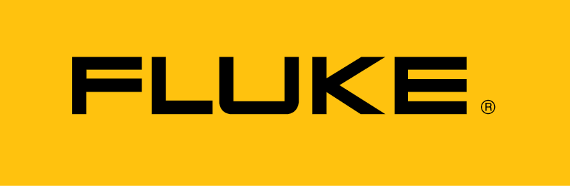 This file is made from Fluke Korea.